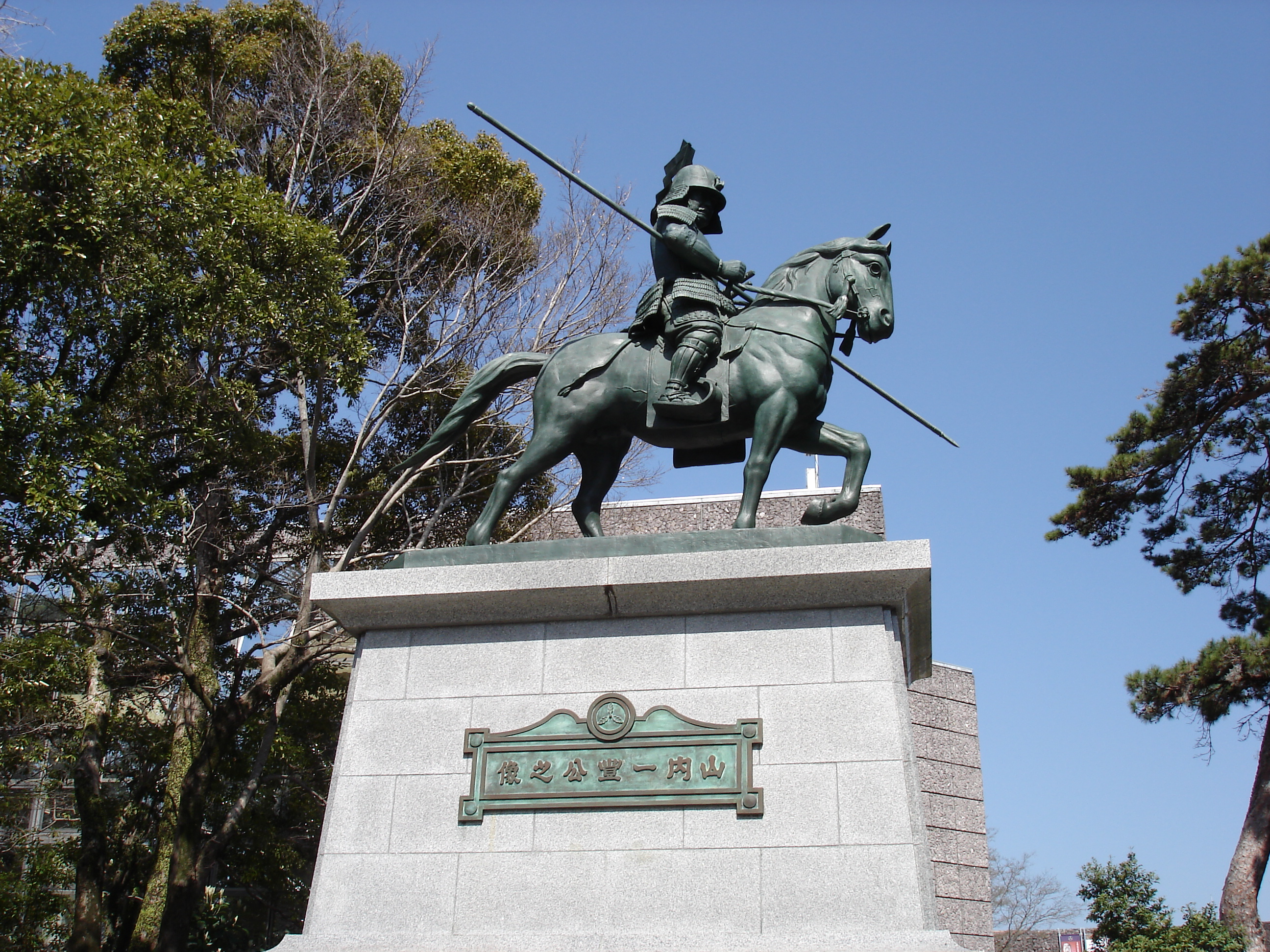 Bronze statue of Yamauchi Katsutoyo in Kochi Japan